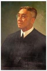 CJ Avancena